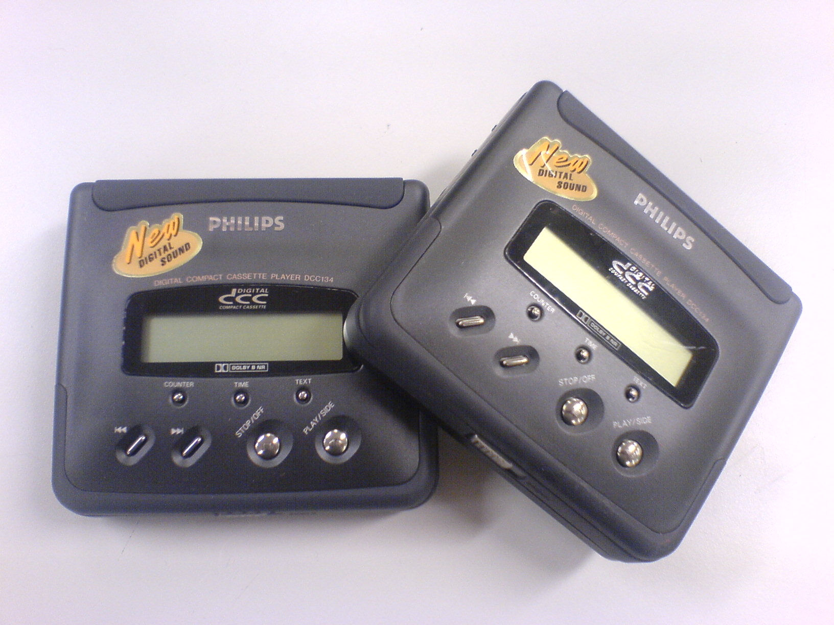 Philips DCC player DCC134